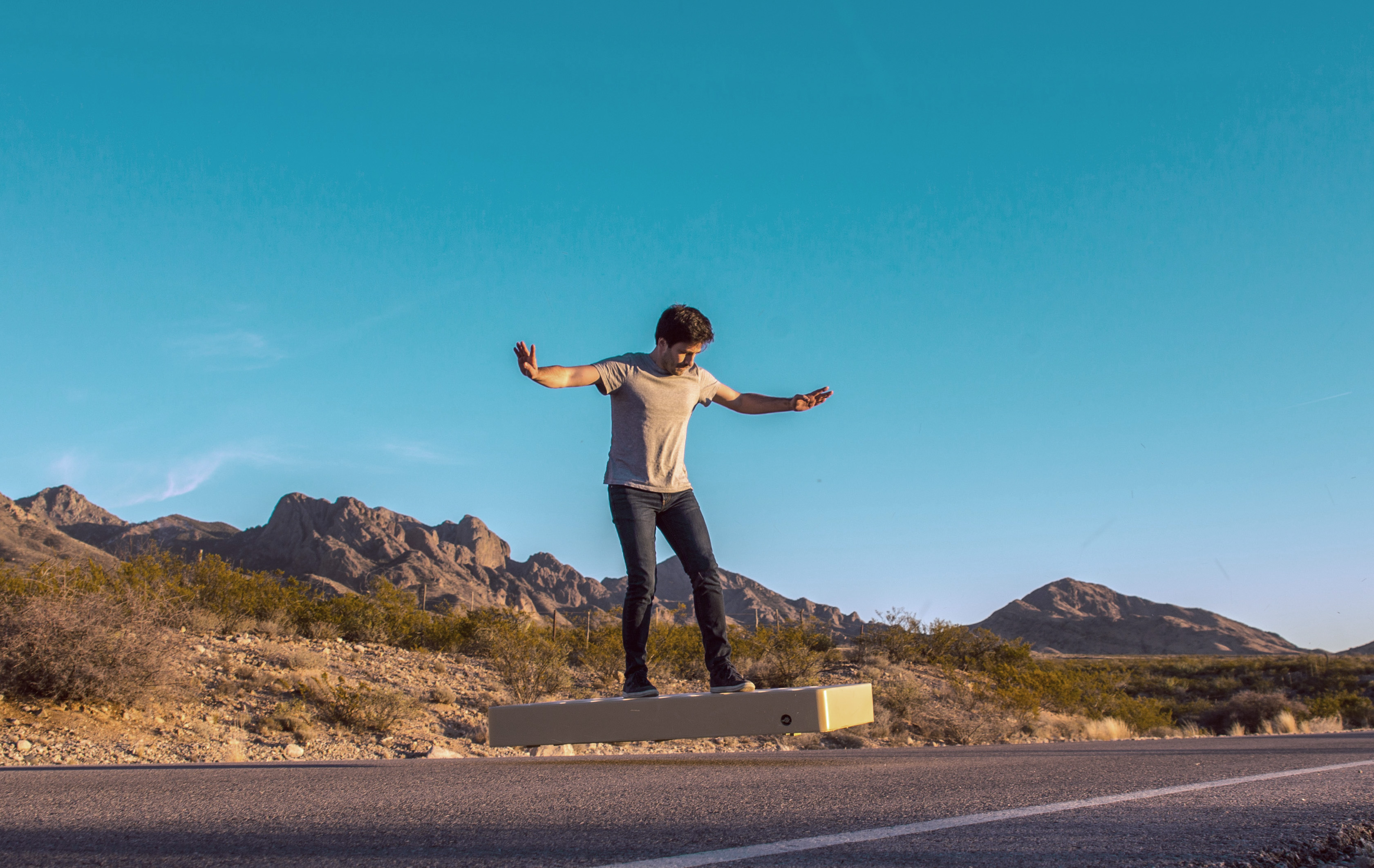 Dumitru Popescu, ARCA CEO, controlling ArcaBoard personal flying device